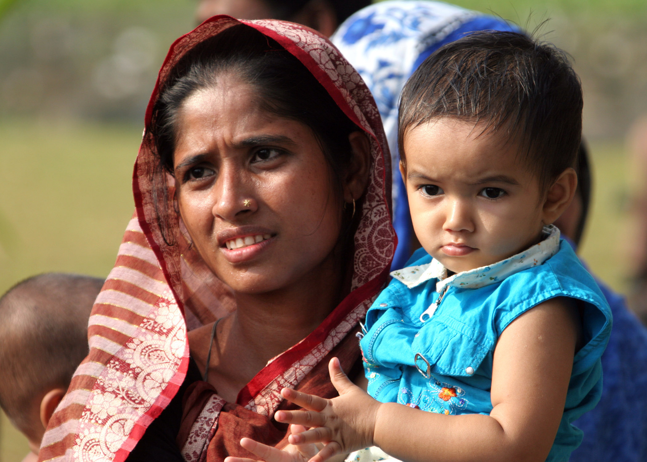 SOUTHERN BANGLADESH (Nov. 29, 2007) Mother and son patiently wait in line to receive medical aid in the wake of Tropical Cyclone Sidr that smashed into the southern coast of Bangladesh Nov. 15. A seven-man medical team from the amphibious assault ship USS Kearsarge (LHD 3) provided medical aid to more than two hundred patients in a period of eight hours. Kearsarge and the embarked elements of the 22nd Marine Expeditionary Unit (SOC) arrived off the coast of Bangladesh Nov. 23 to assist in the relief efforts at the request of the Bangladesh Government. U.S. Marine Corps photo by Sgt. Ezekiel R. Kitandwe (RELEASED)